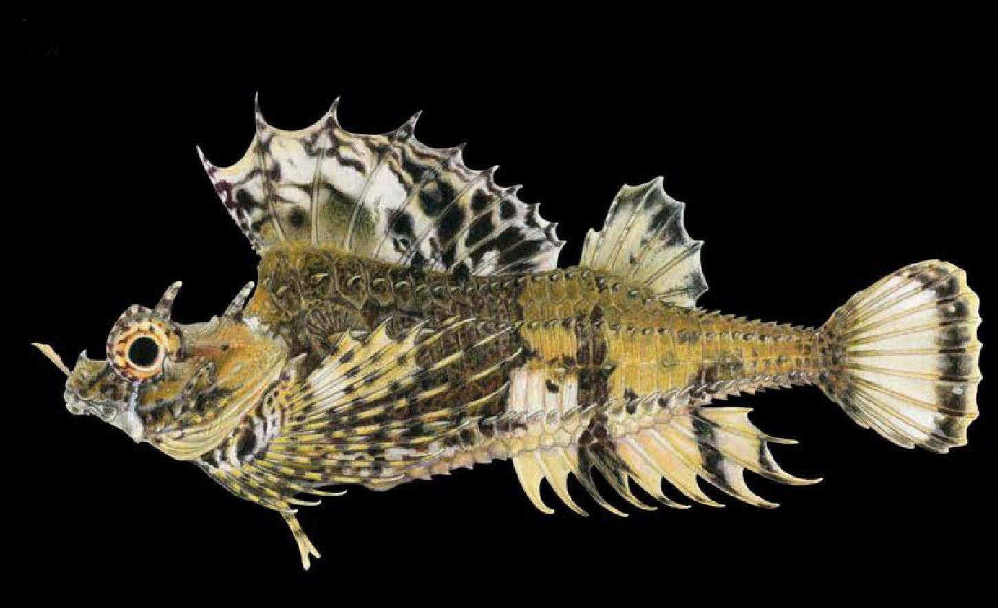 Fourhorn poacher, Hypsagonus quadricornis image by Joseph R. Tomelleri